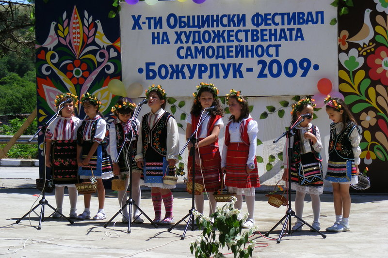 Festival at Bozhurluka village 2009